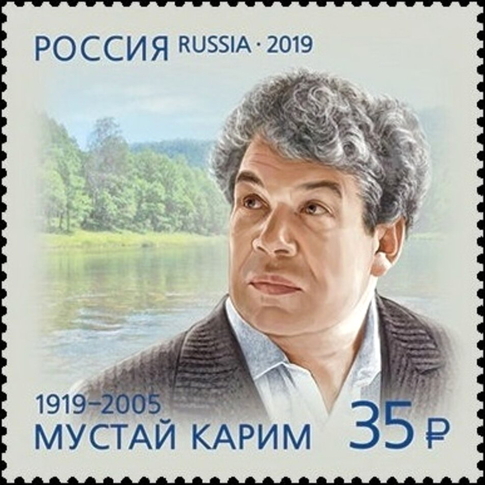 Mustai Karim